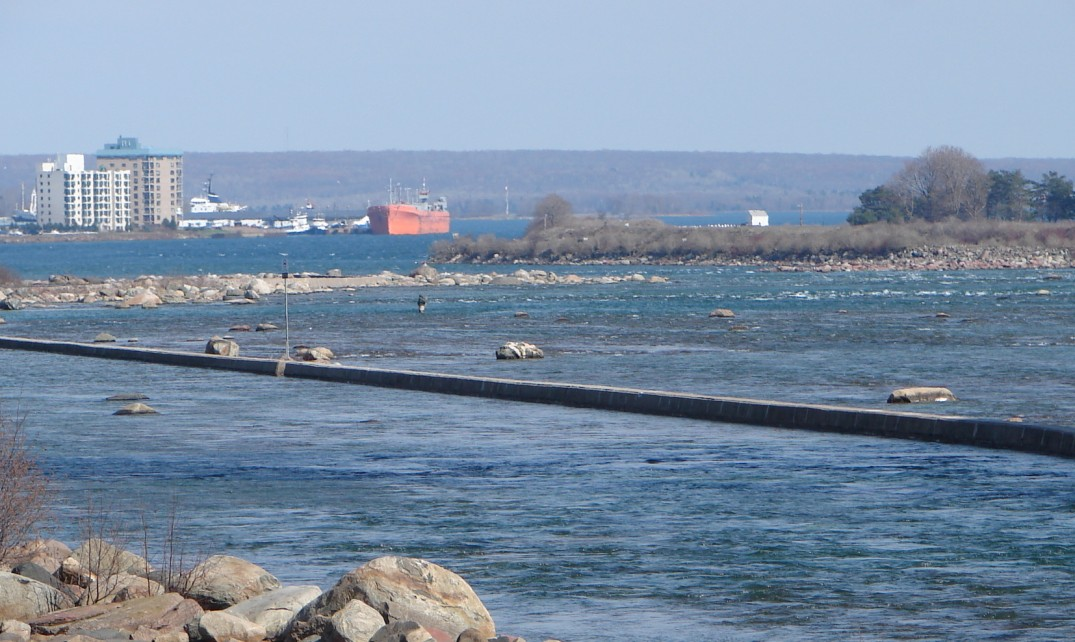 Rapids of the Ste. Marys River, Canada and USA.